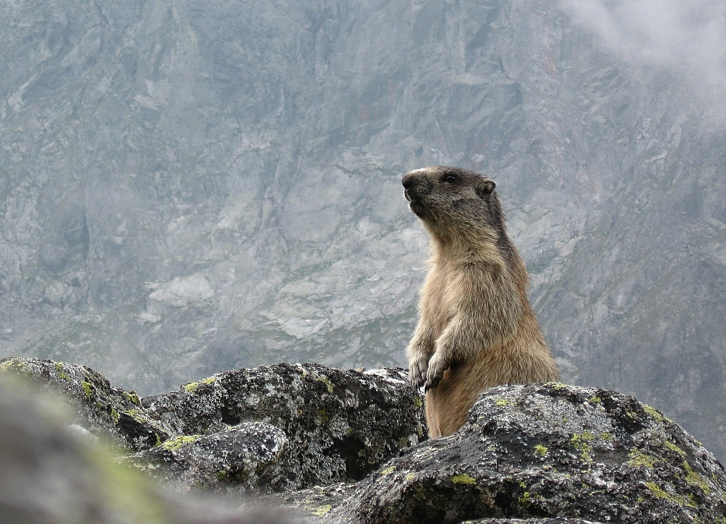 Endemic Marmota marmota latirostris (Tatra marmot) in Veľká Studená dolina (valley) — Tatra National Park, Slovakia — August, 2008.